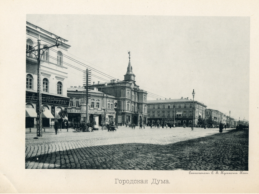 An early-20th century Russian postcard with the photo of the Kiev City Duma building located at the Dumskaya Square, currently maidan Nezalezhnosti